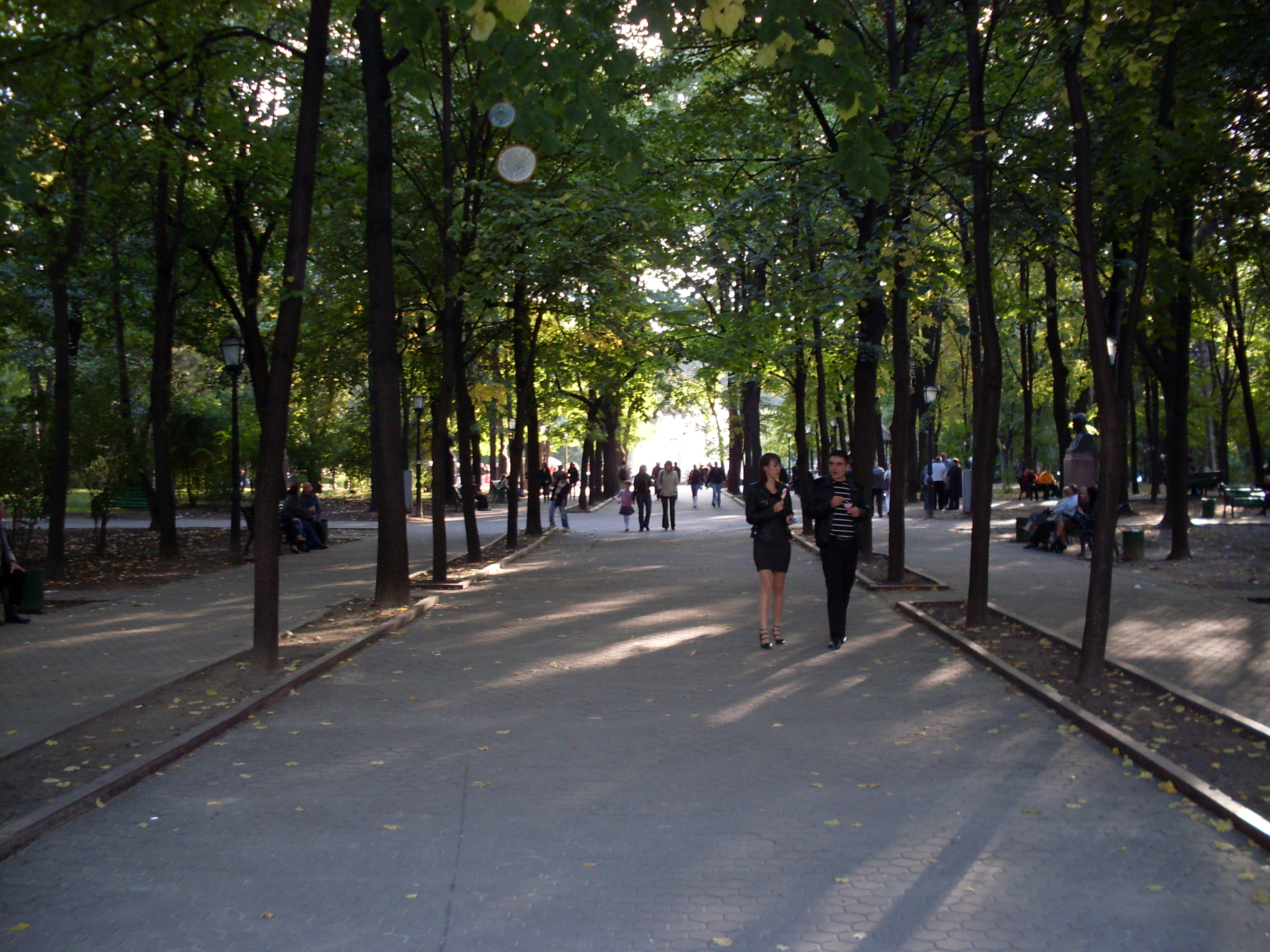 The Alley of Classics of Romanian Literature (Chişinău), general view.